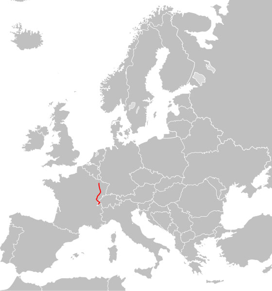 The European route 23